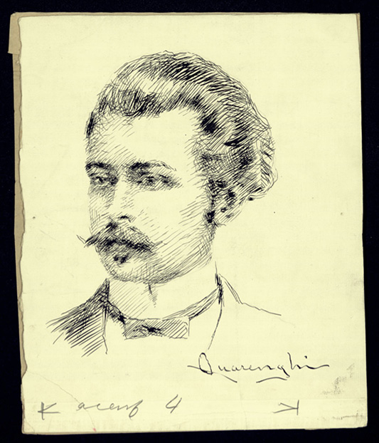 Portrait of Carl Prohaska, composer (1869-1927), before 1927.